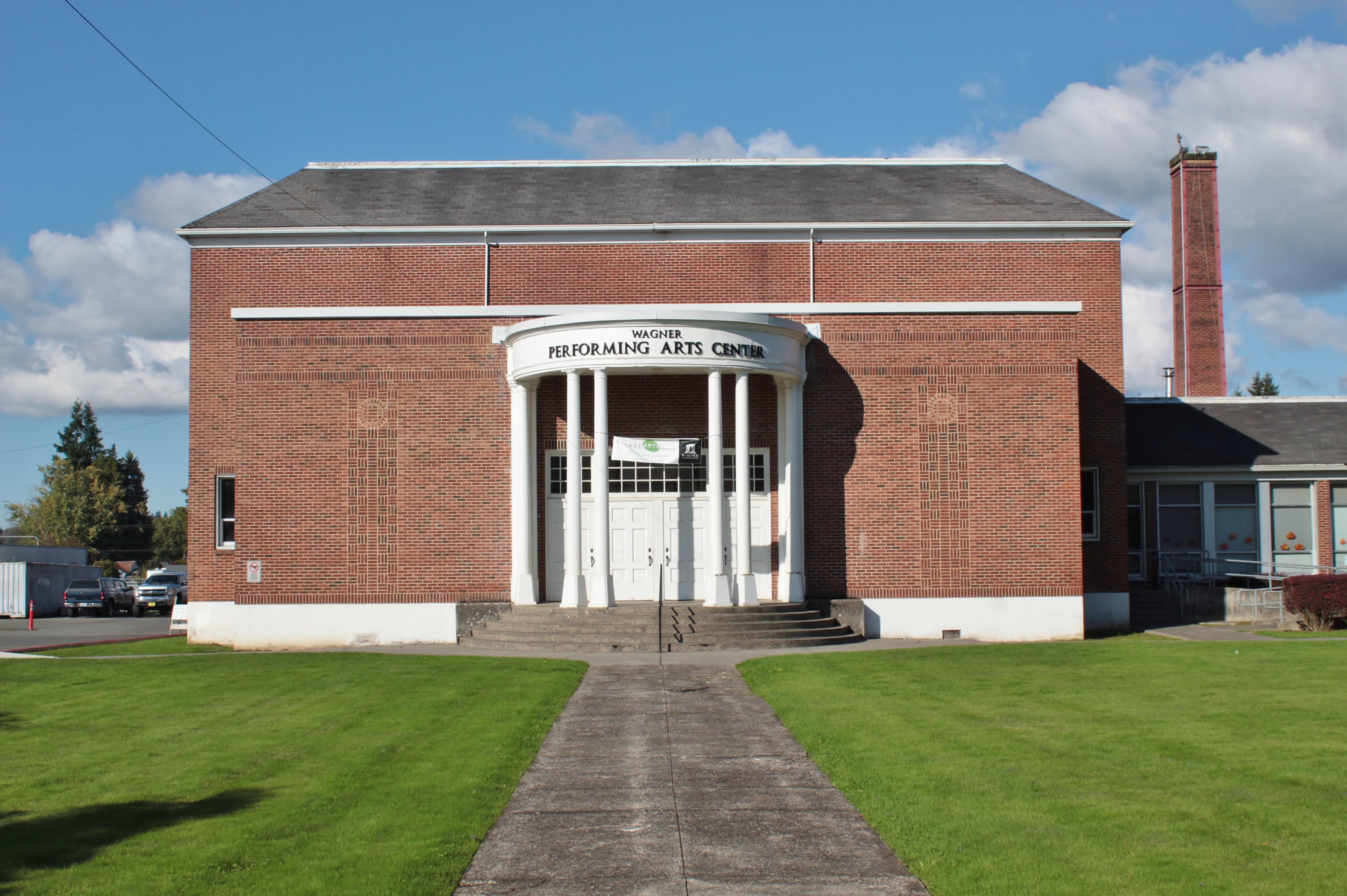 The Wagner Performing Arts Center, a small arts and theatre venue in Monroe, Washington, on the campus of a local elementary school. It is named for George Wagner, a German immigrant to the area who owned a prominent sawmill in the early 20th century.